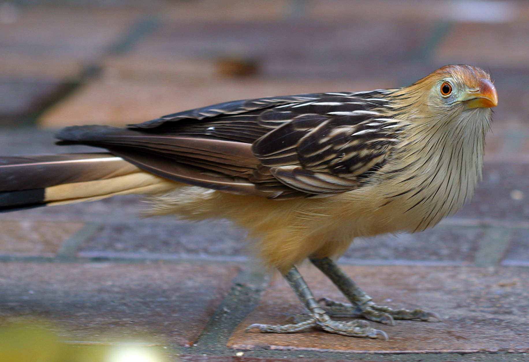 guira at the National Aviary in April 2007.